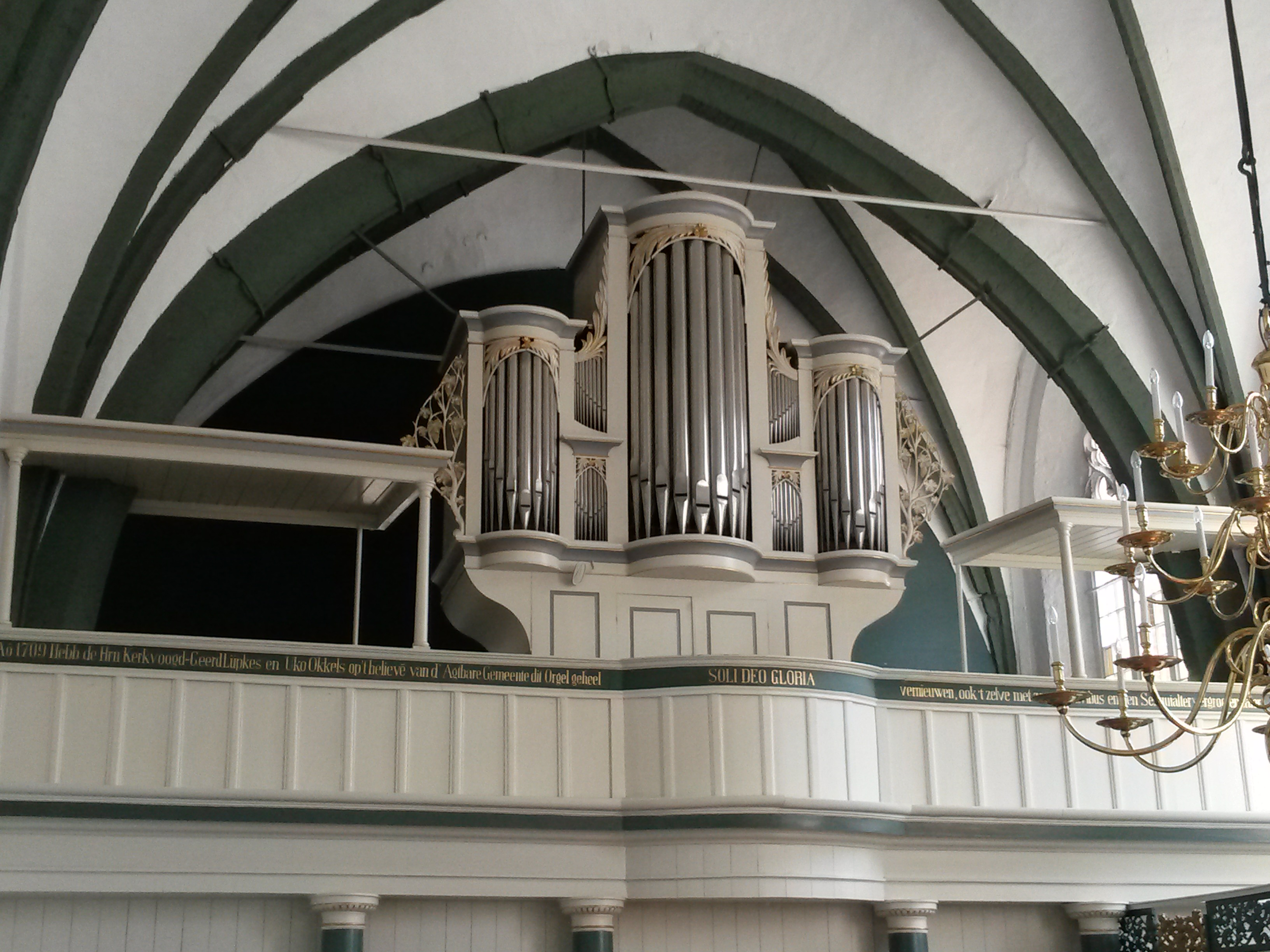 Organ of the church of Larrelt, East Frisia, Germany